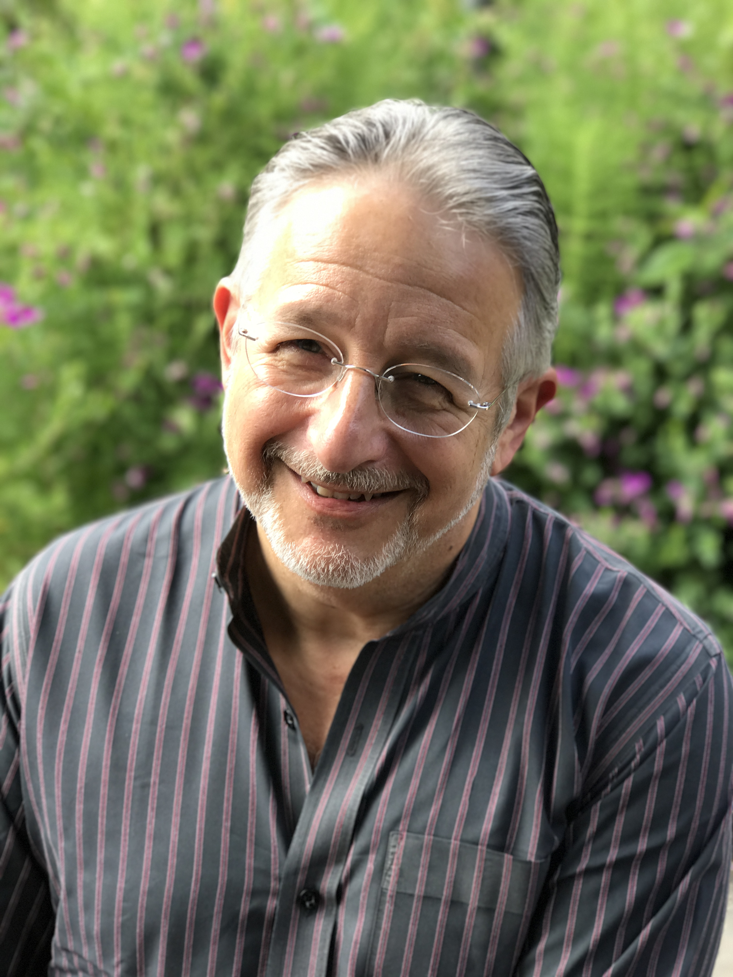 May 4, 2017